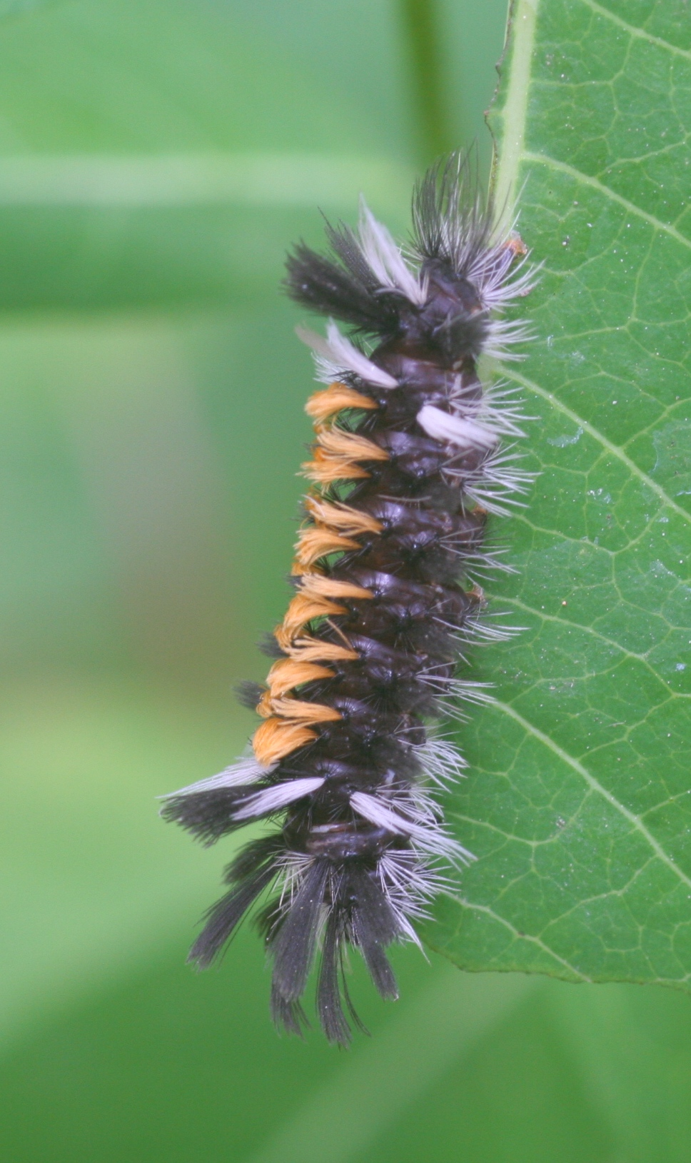 Euchaetes egle milkweed tussock late instar larva